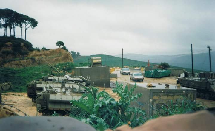 הכניסה למוצה עיישייה ברצועת הביטחון בדרום לבנון בשנת 1998 (התמונה צולמה על ידי שי)